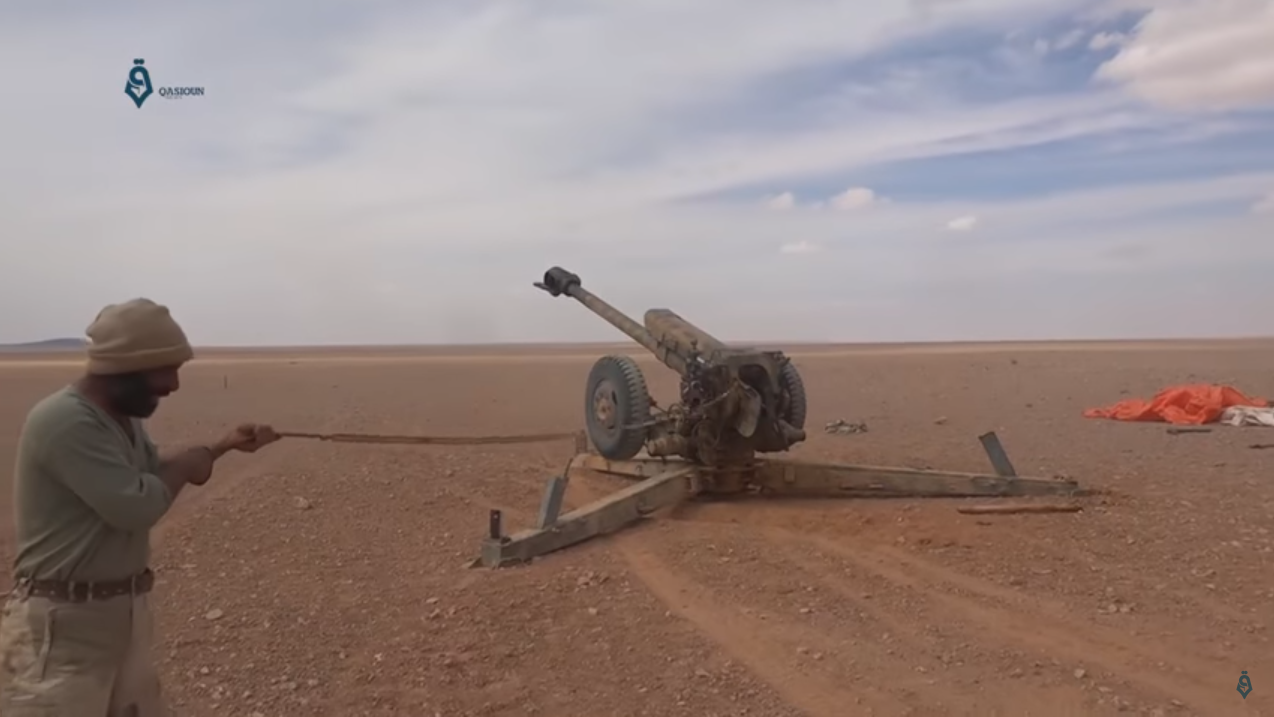 D-30 122 mm howitzer of the Lions of the East Army.